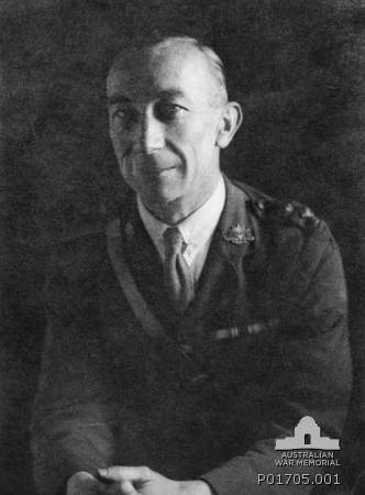 HAWTHORN, VIC, C. 1941. STUDIO PORTRAIT OF LIEUTENANT (LT) GEORGE COURTNEY BENSON (1886-1960) IN MILITARY UNIFORM. AN OFFICIAL WAR ARTIST DURING WW1, LT BENSON JOINED THE CITIZEN MILITARY FORCES (CMF) IN 1940 AND WORKED FROM THEN UNTIL 1943 IN PAINTING CAMOUFLAGE. (DONOR: V. SPEEDY)